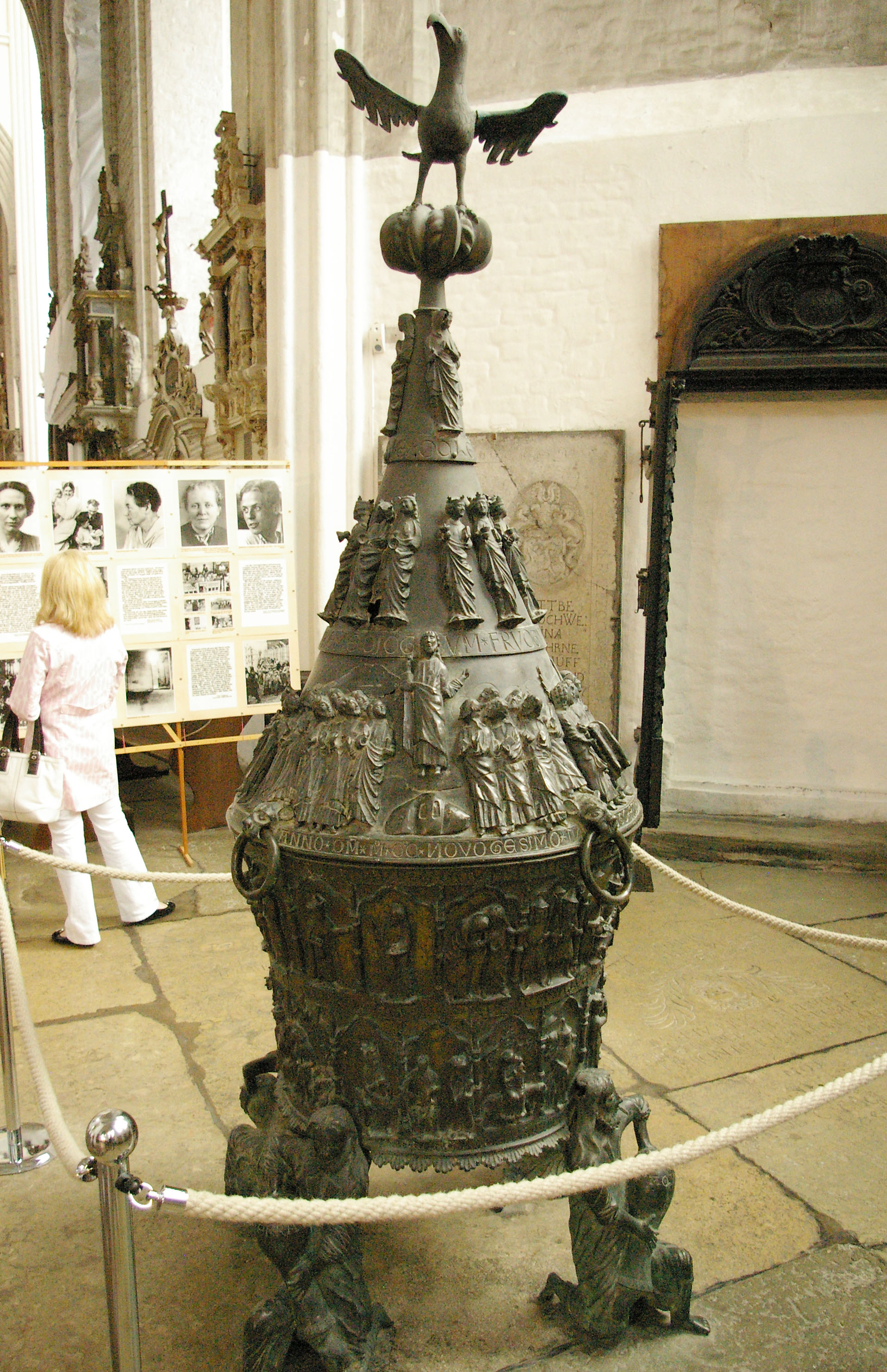 Medielval baptismal font from Rostock Church, Germany.